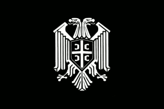 Flag of the National Alignment